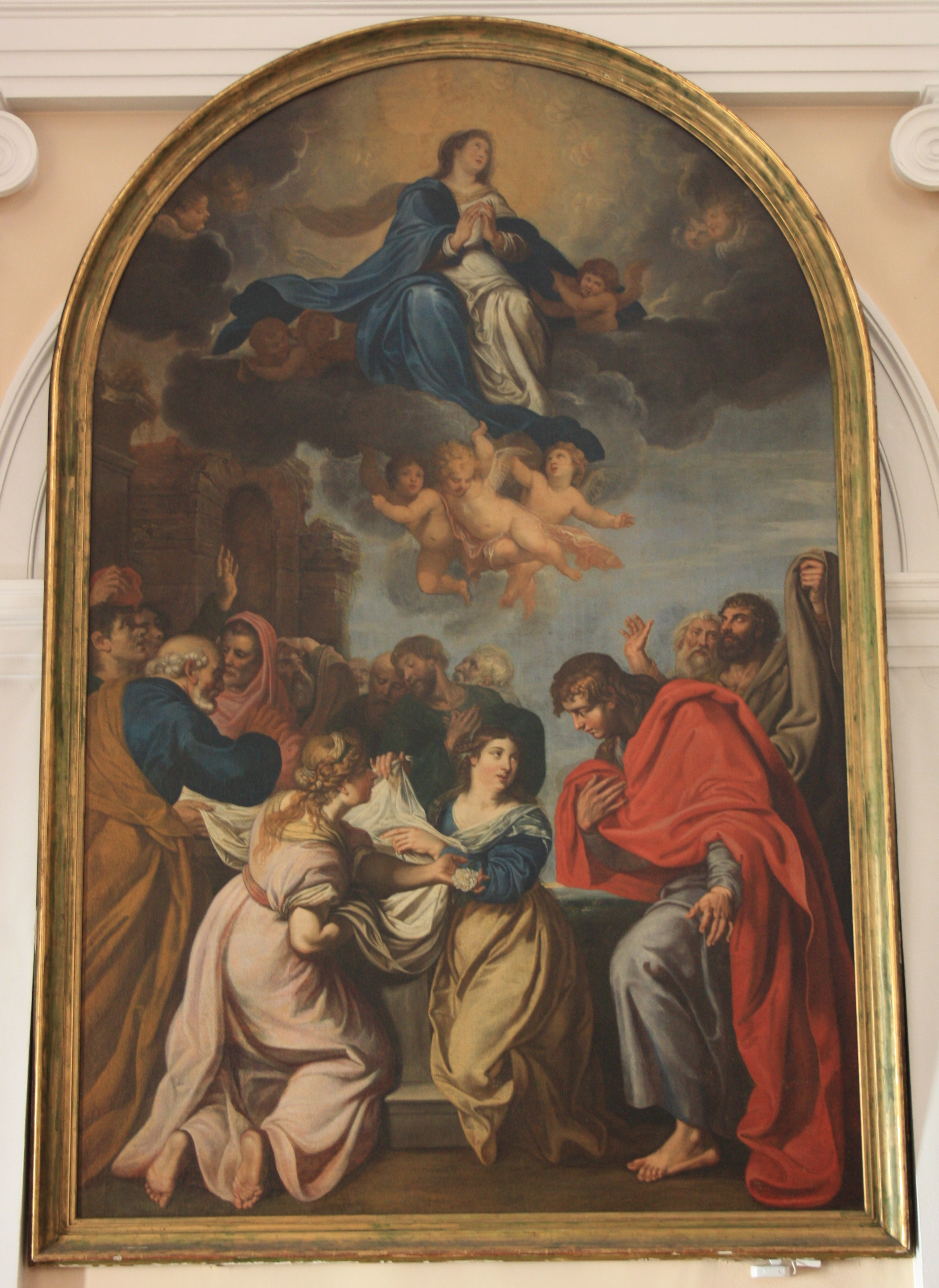 Painting inside of church Église Saint-Gilles in Bourg-la-Reine, France. Title: "ASSOMPTION". Author unknown from Flanders. XVIIe century.